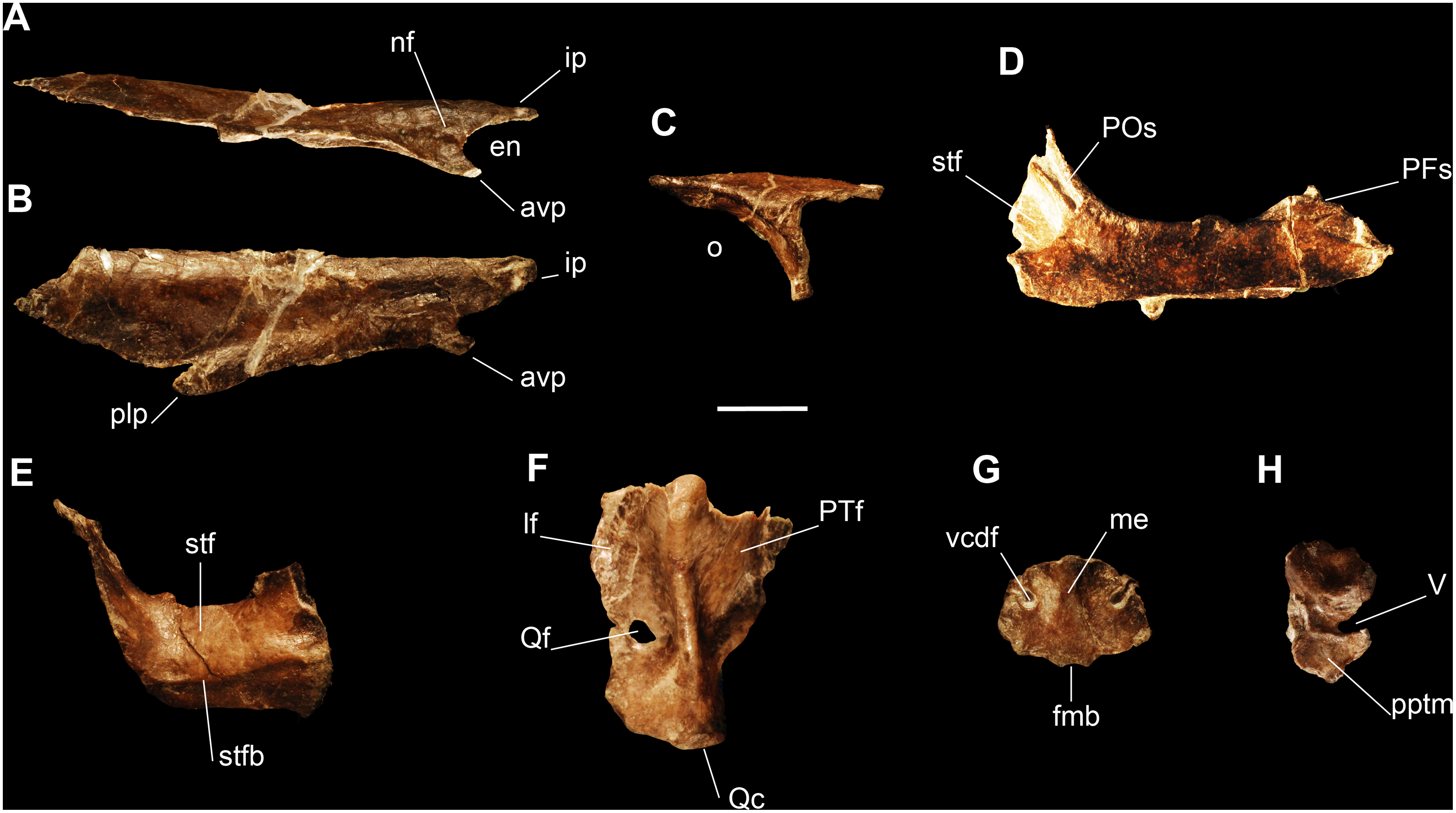 Preserved skull bones of the new basal sauropodomorph Panphagia protos (PVSJ 874). Right nasal in lateral (A) and dorsal (B) views. (C)-Right prefrontal in lateral view. (D)-Left frontal in dorsal view. (E)-Left parietal in dorsal view. (F)-Left quadrate in posterior view. (G)-Supraoccipital in posterior view. (H)-Right prootic in lateral view. Abbreviations: avp, anteroventral process of nasal; en, external nares; fmb, dorsal border of foramen magnum; ip, internarial process; lf, lateral flange; me, median eminence; nf, lateral fossa on nasal; o, orbit; PFs, prefrontal suture; plp, posterolateral process of nasal; POs, postorbital suture; pptm, M. protractor pterygoideus attachment; PTf, pterygoid flange; Qc, quadrate condyle; Qf, quadrate foramen; stf: supratemporal fossa; stfb, medial border of supratemporal fossa; V, trigeminal notch; vcdf, vena capitis dorsalis fossa. Scale bar equals 1 cm.